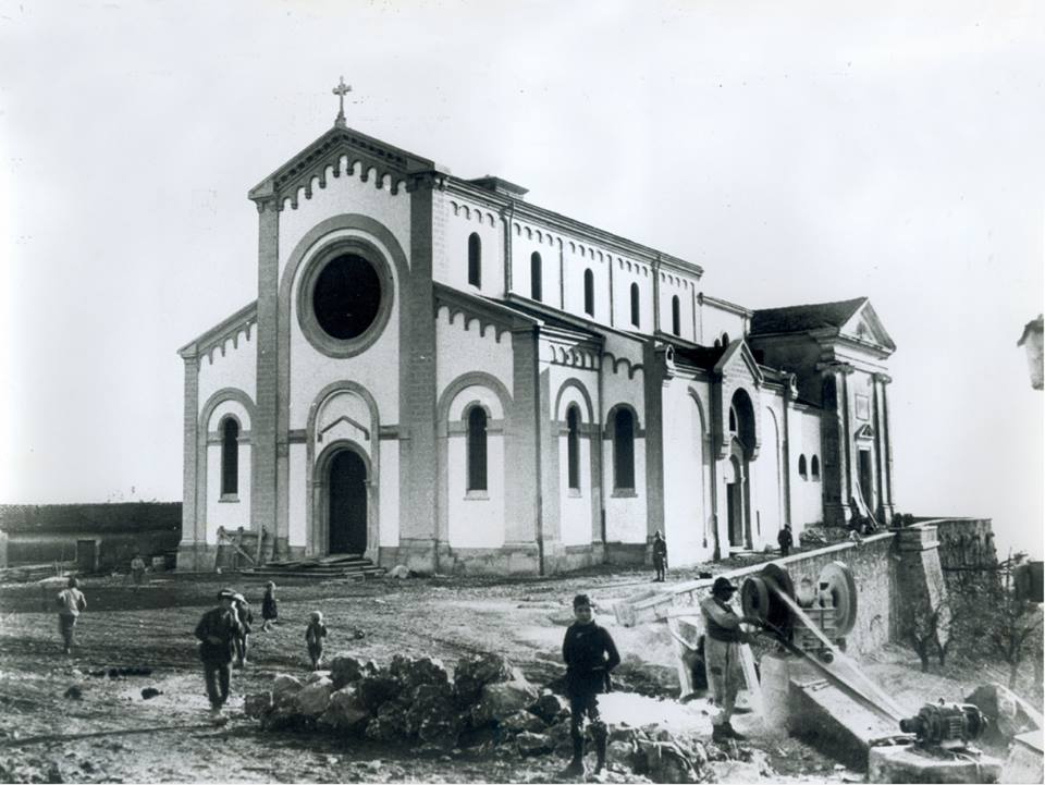 Muzzolon_Nuova Chiesa Parrocchiale